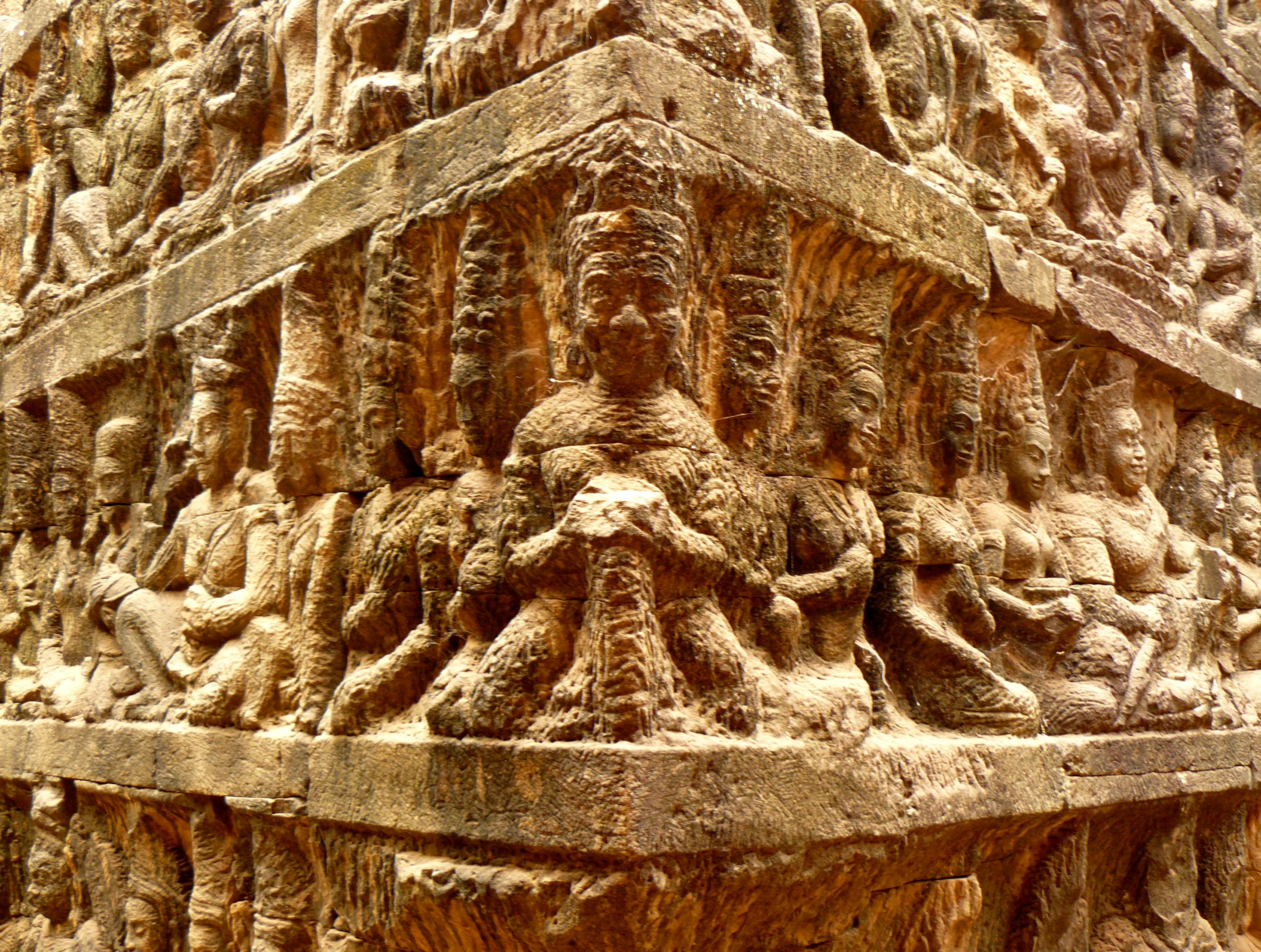 Terrace of the Leper King, Cambodia